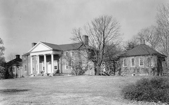 Whitehall, Saint Margarets Road, Annapolis (Anne Arundel County, Maryland) (cropped) Neoclassical style plantation house. Image courtesy of the federal HABS—Historic American Buildings Survey of Maryland.